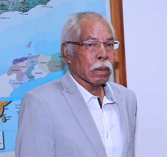 Francisco Oliveira, Präsident der Air Timor